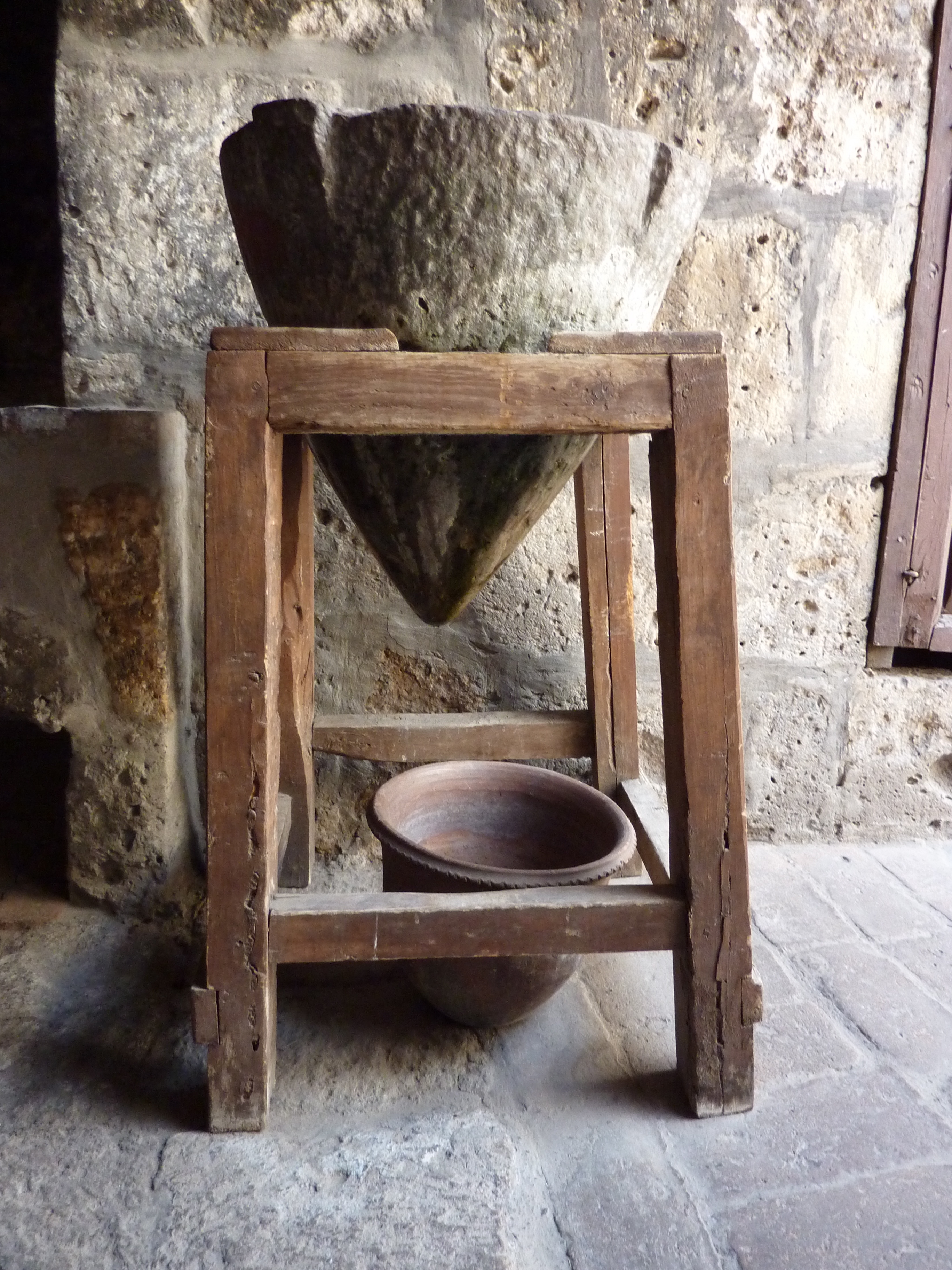 Filtration stone : when its filled with water, the water slowly goes through the stone and falls into the jug on the floor. Santa Catalina Monastery, Arequipa, Peru